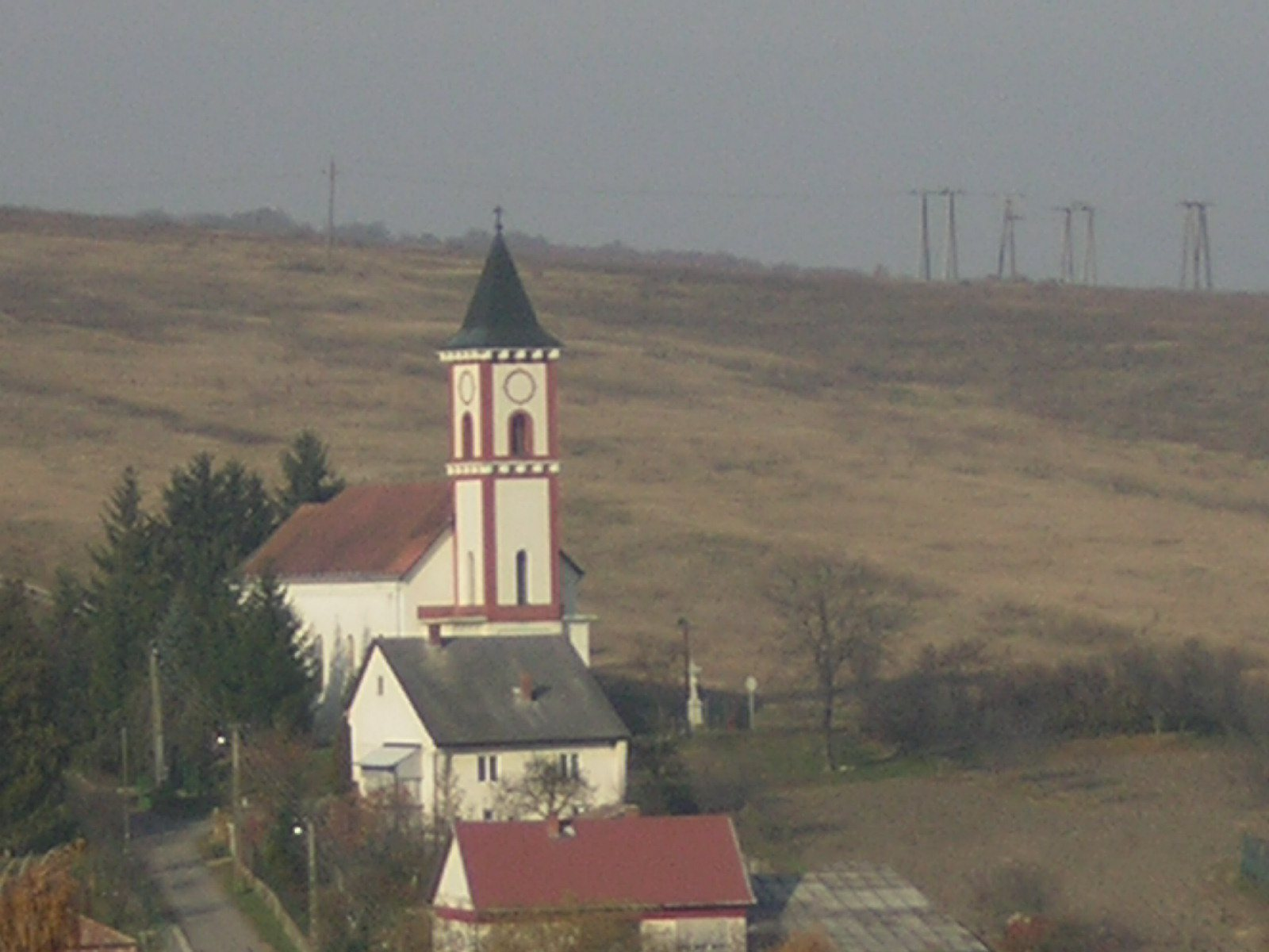 The belfry of the church of Nagybárkány village.